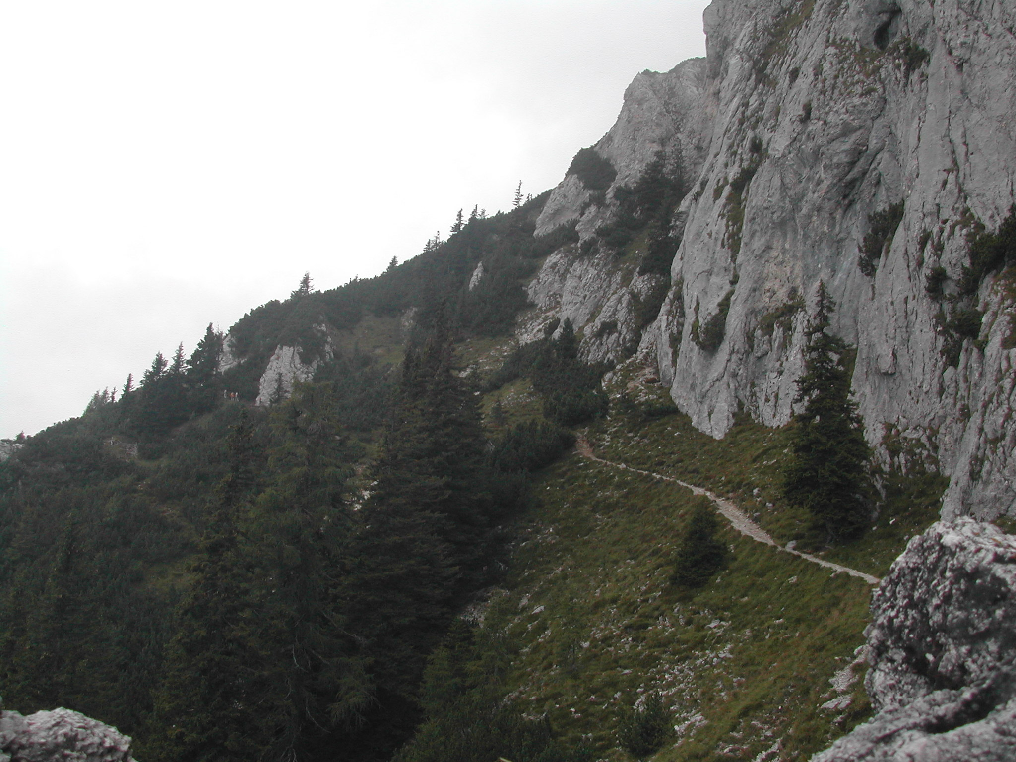 Way to the Dobratsch over the Gailtal